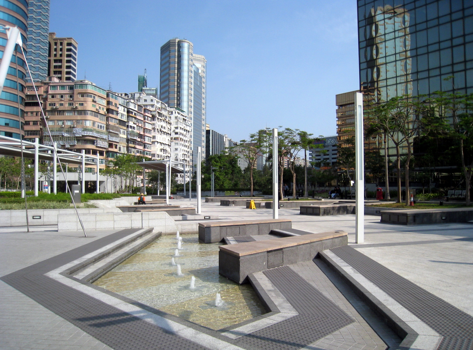 Tsim Sha Tsui East Waterfront Podium Garden 尖沙咀東海濱平台花園